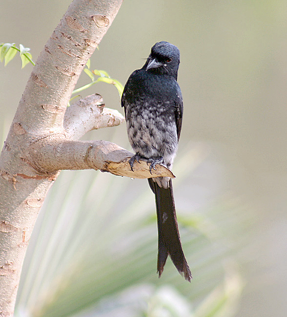 Black Drongo Dicrurus macrocercus in Kolkata, West Bengal, India.